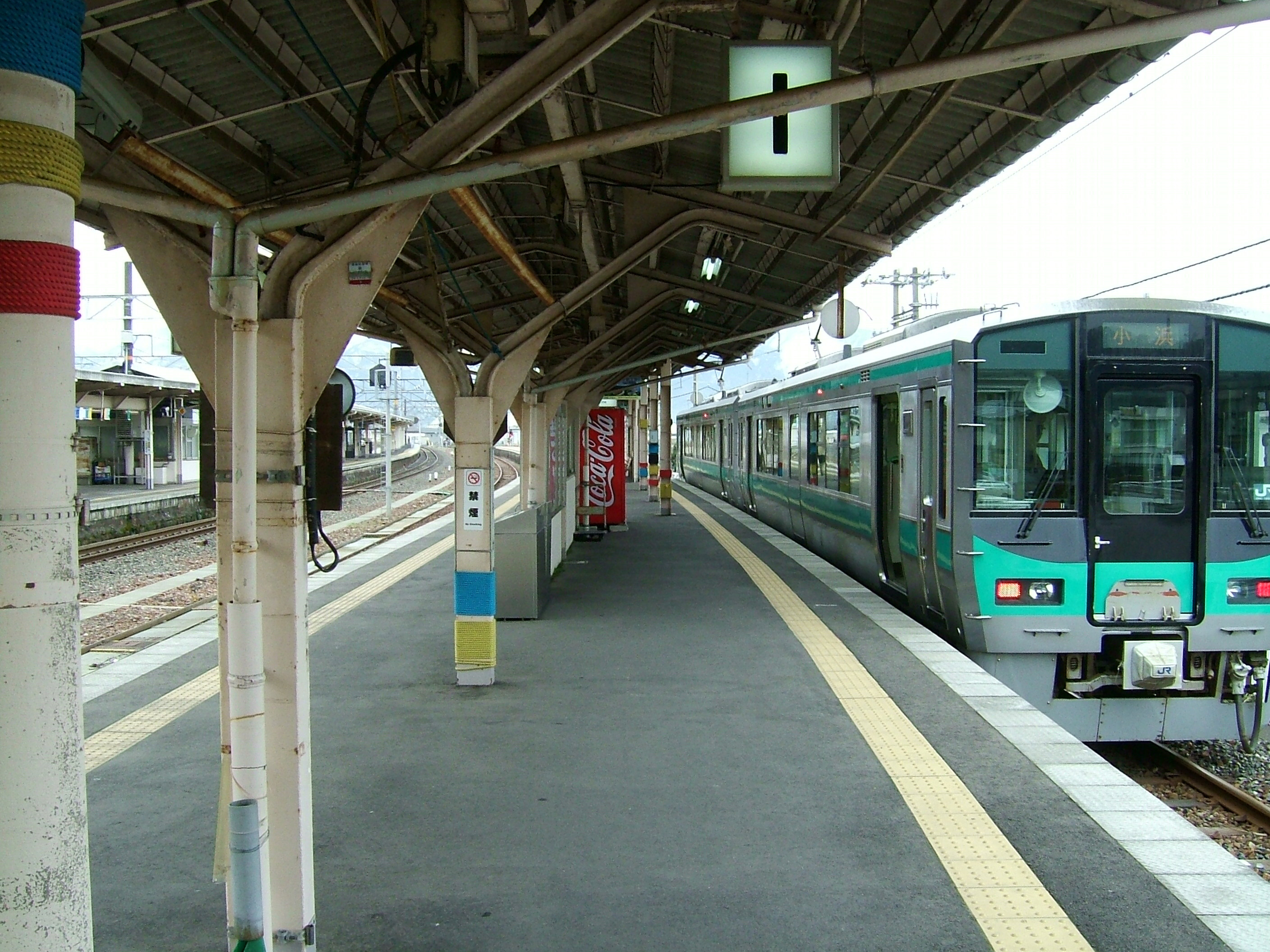 The platform of Tsuruga Station(Obama Line)